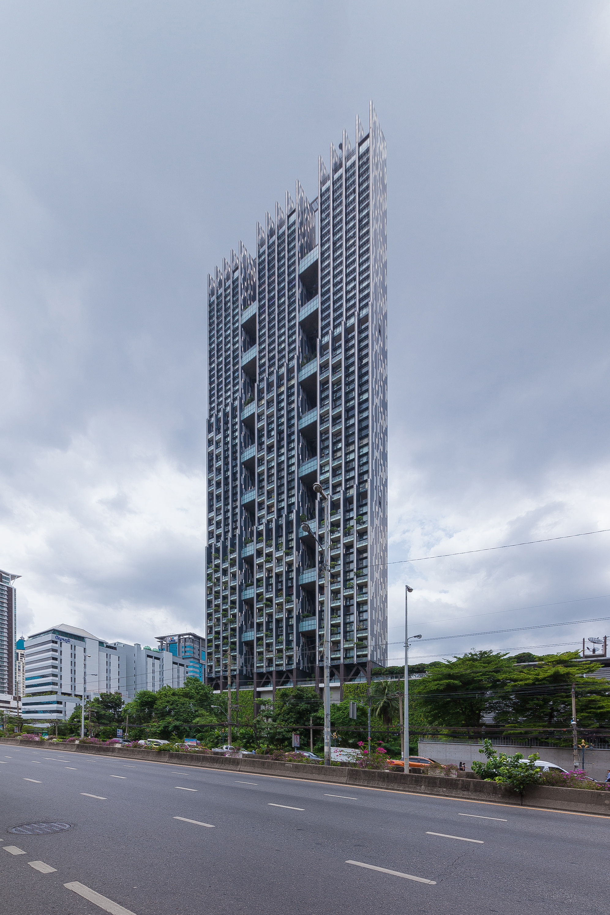 The Met Condominium, Sathon, Bangkok.